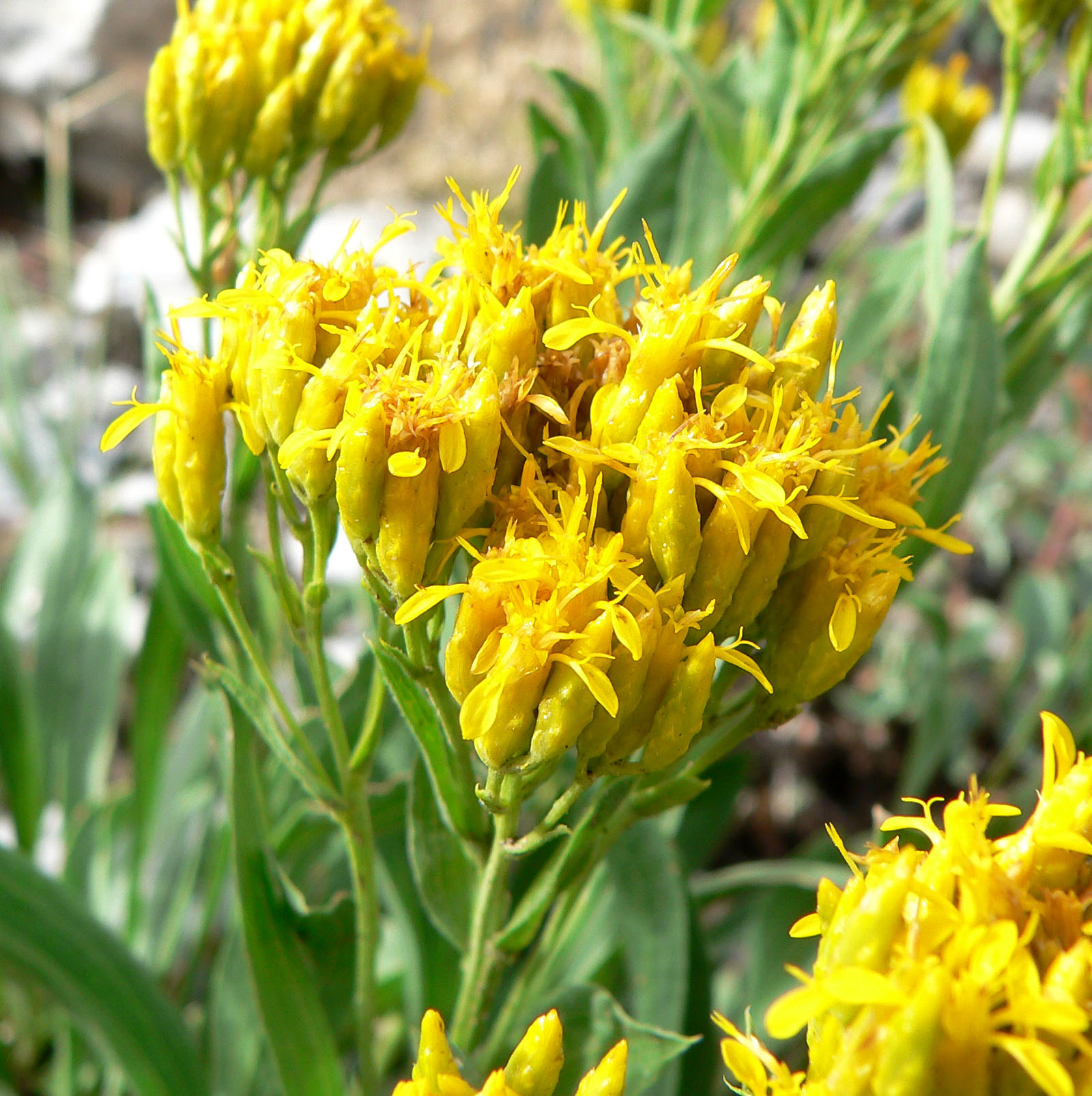 Petradoria pumila ssp. pumila in Lee Canyon, Spring Mountains, southern Nevada